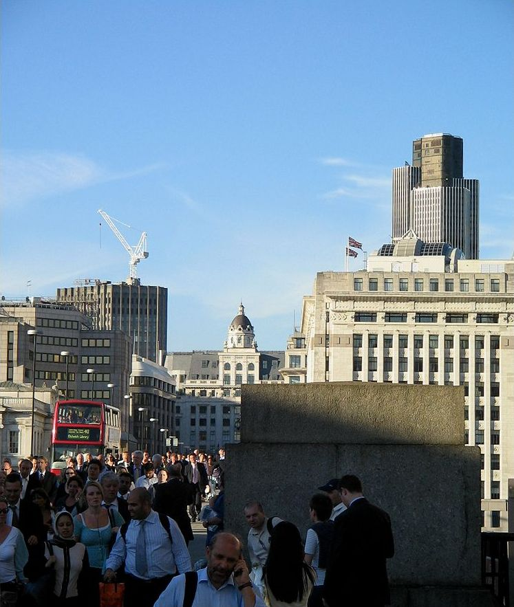 Office workers returning home, at the southern end of London Bridge. Photo taken by Will Fox in September 2005.